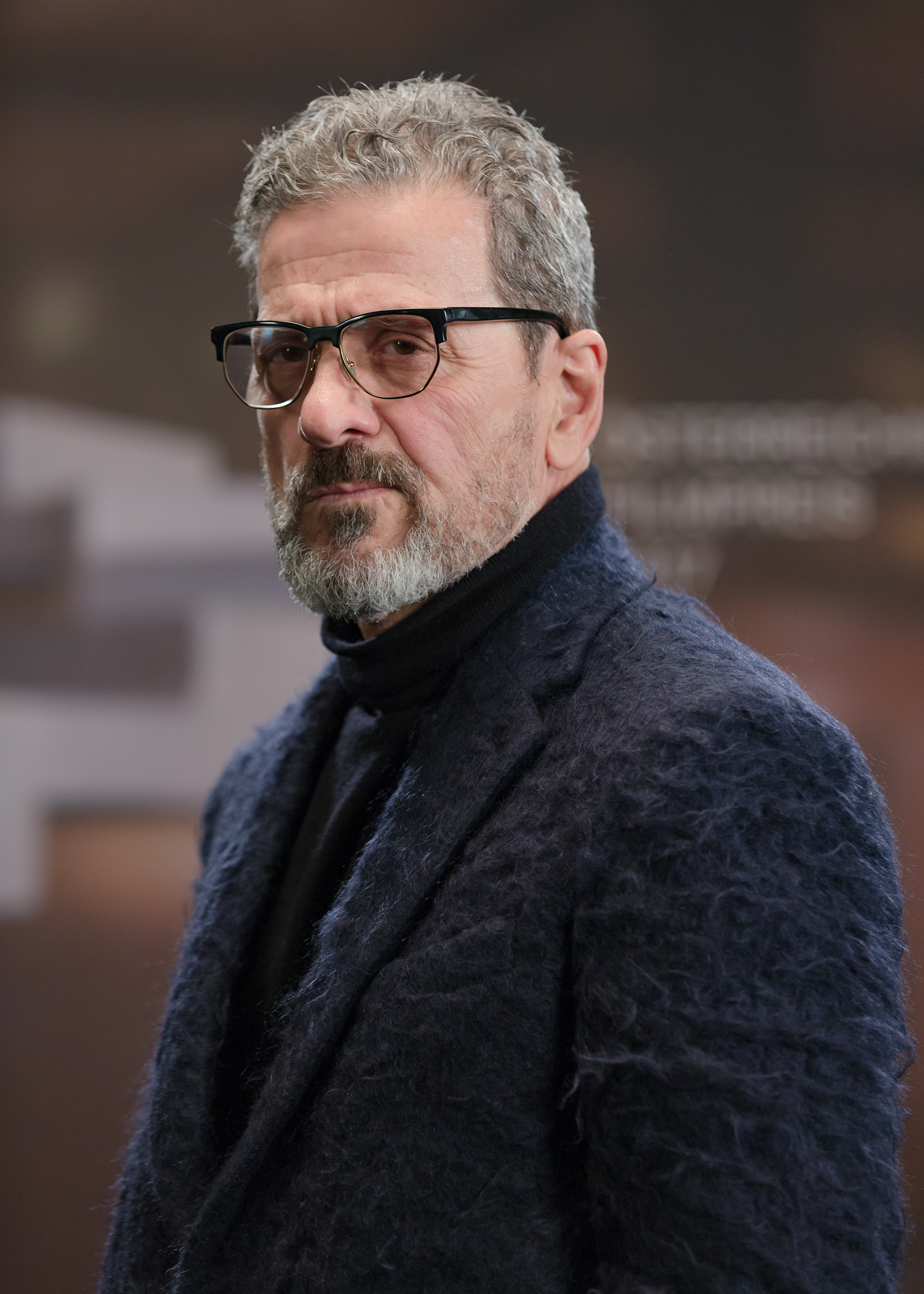 Franz Novotny, producer of Egon Schiele: Tod und Mädchen, at the Austrian Film Awards 2017 (Rathaus, Vienna,Austria).